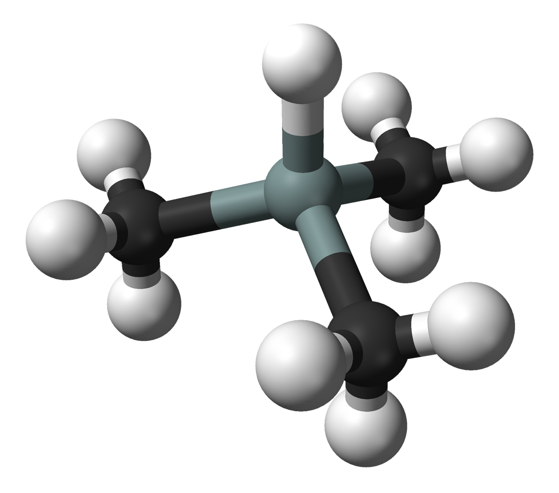 Ball-and-stick model of the trimethylsilane molecule.